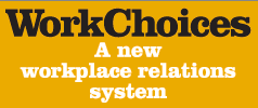 The logo for the Australian Government Workplace Relation system WorkChoices.